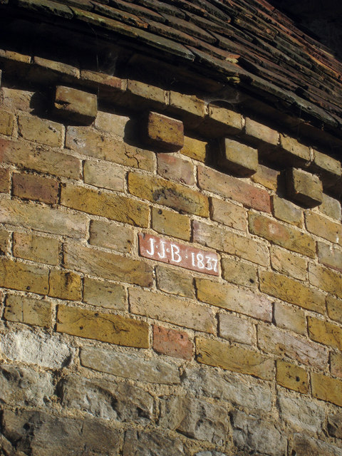 Dated Brick of Lyewood Farm Oast. An dentilled eaves detail, ragstone walls below yellow flemish brick, with one red brick dated 1837 and initials J·J·B, presumably the original builder. Whole building 1585459